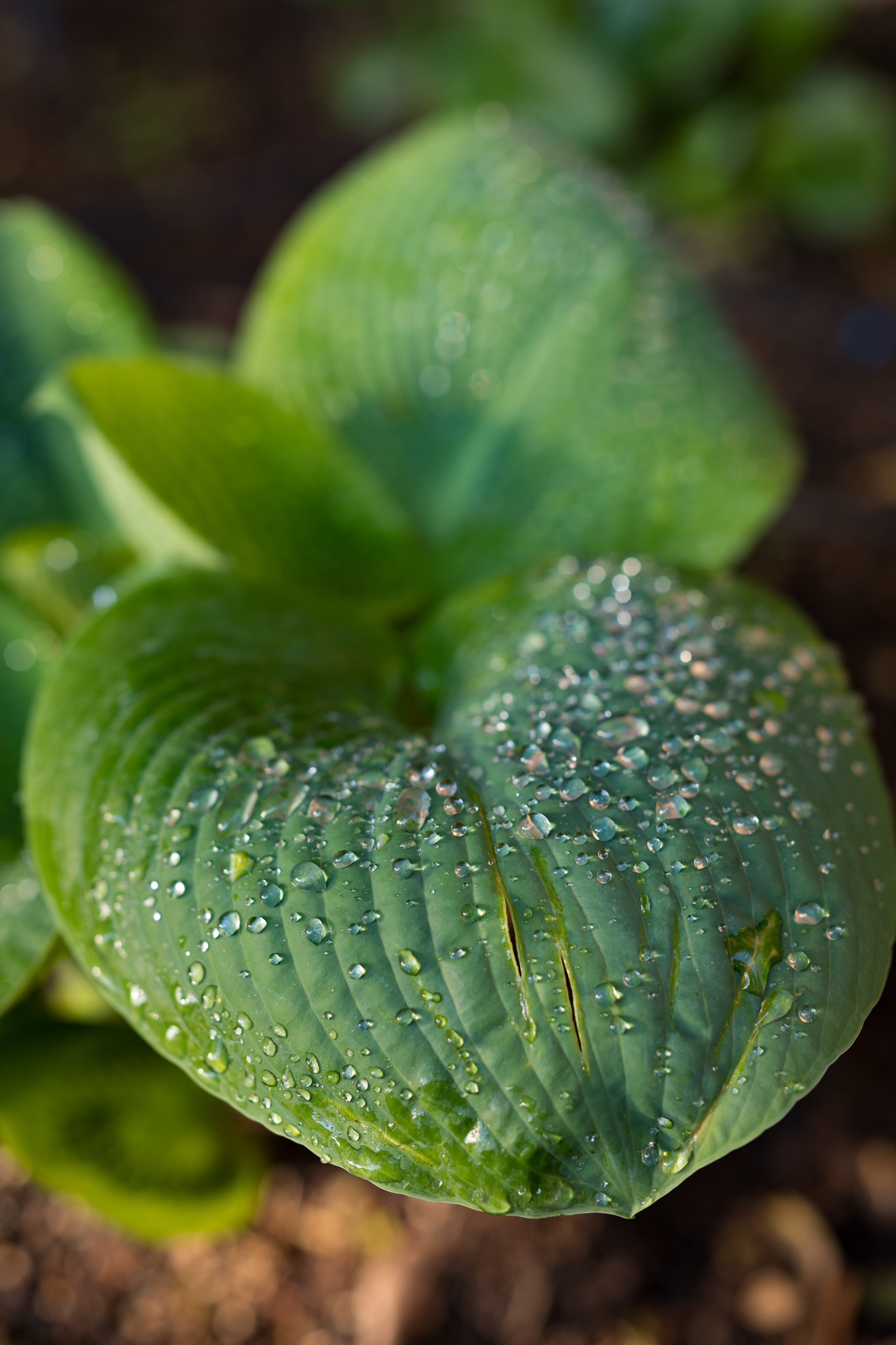 Morning dew on plantain lily (Hosta) leaves